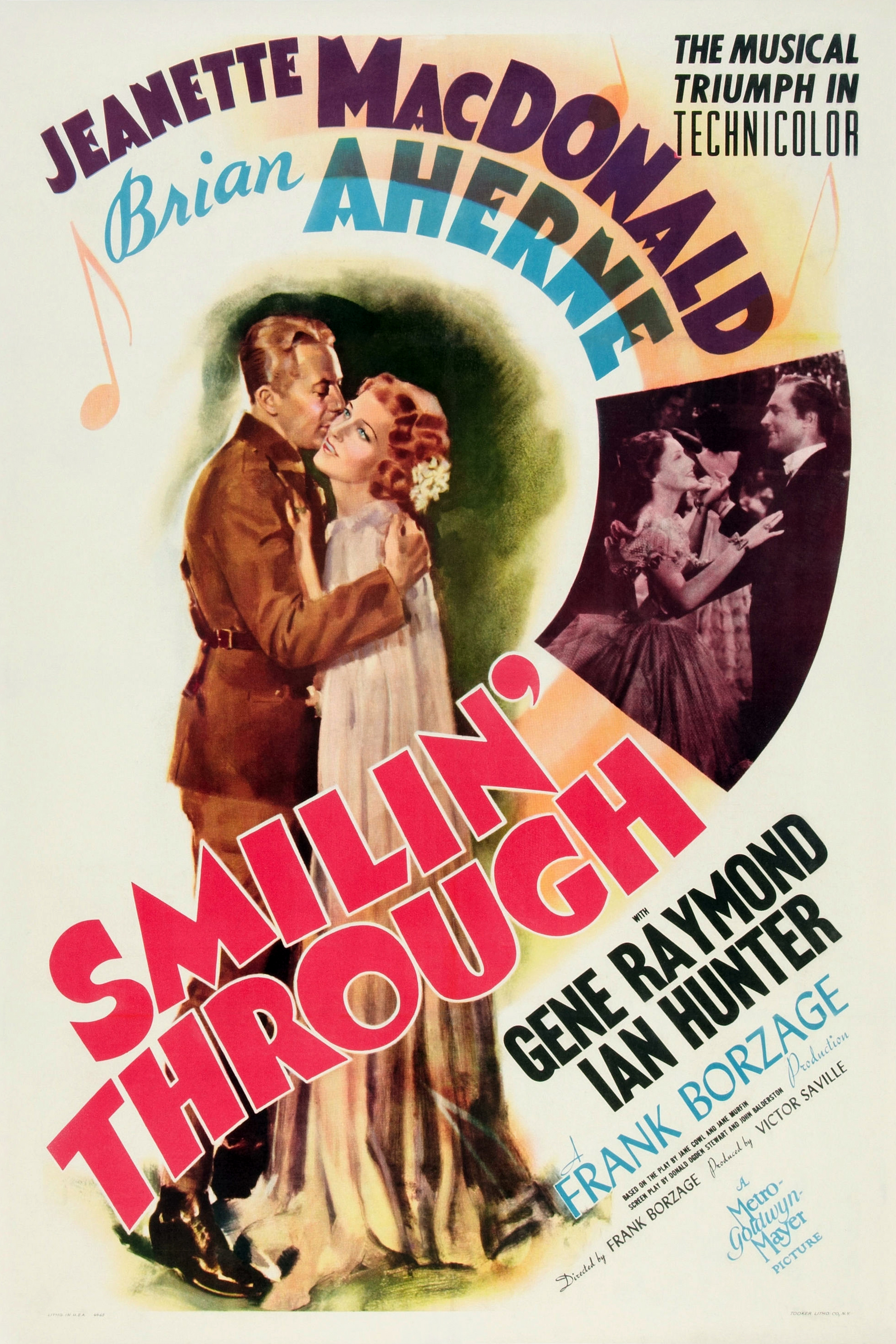 Poster for the 1941 film Smilin' Through. The item has no copyright marks on it as can be seen at links and original upload. At bottom left is Litho in USA and some numbers which appear to be related to the printing of the poster. At bottom right is Tooker Litho Co., NY-they printed the poster.